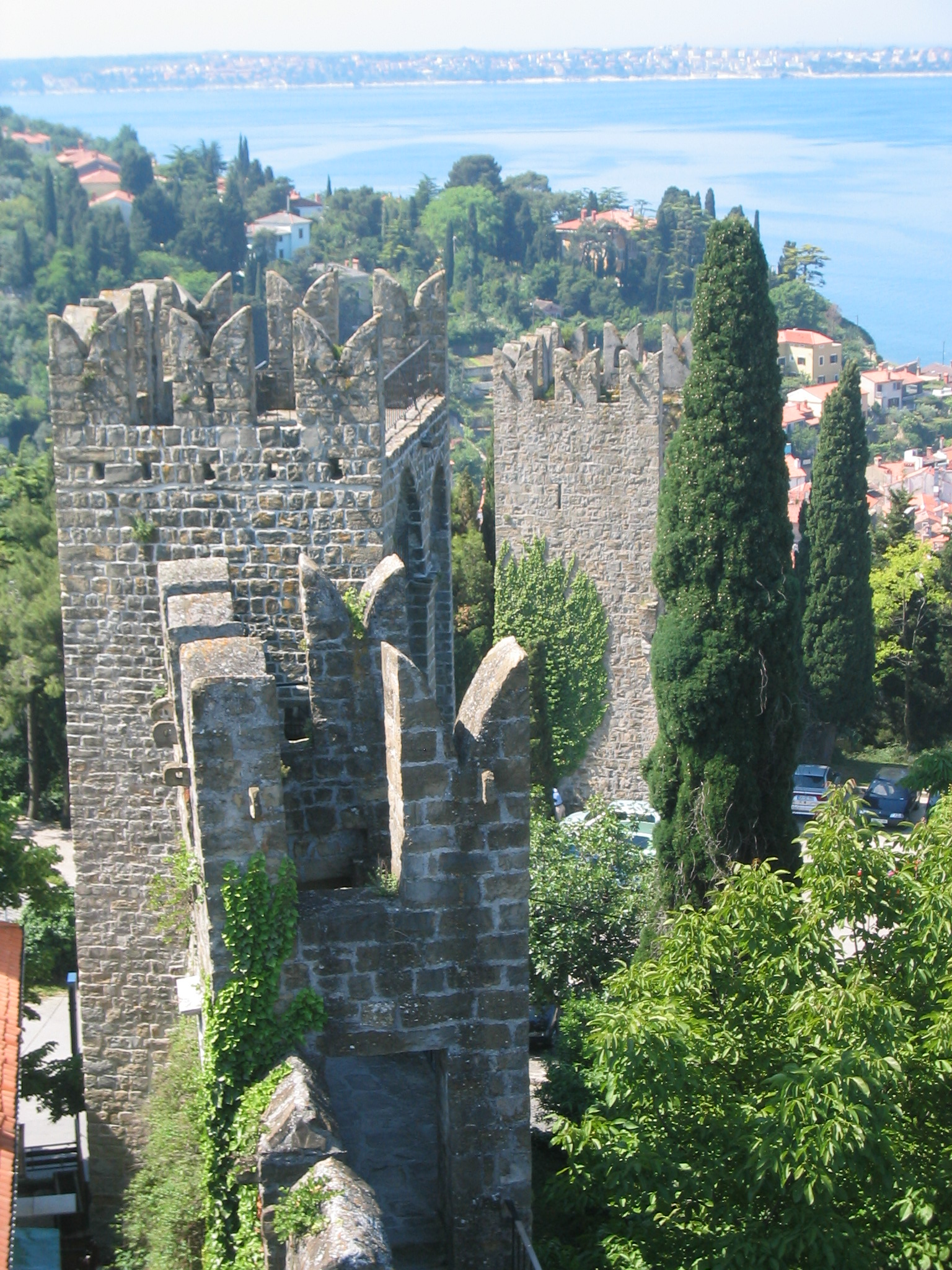 The Walls of Piran, Slovenia